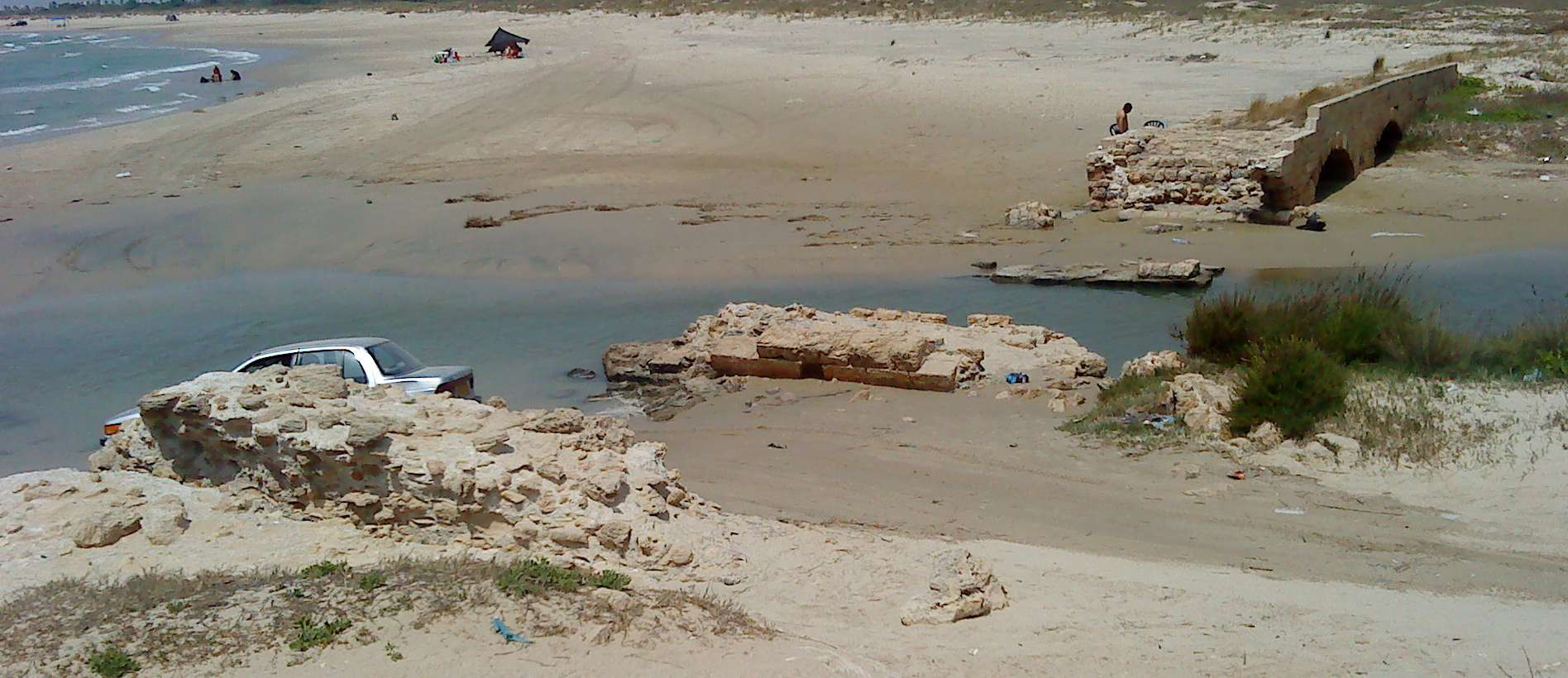 Nahal Taninim nature reserve, Israel.